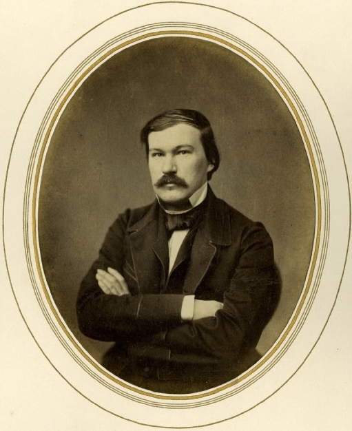 Alexander Druzhinin